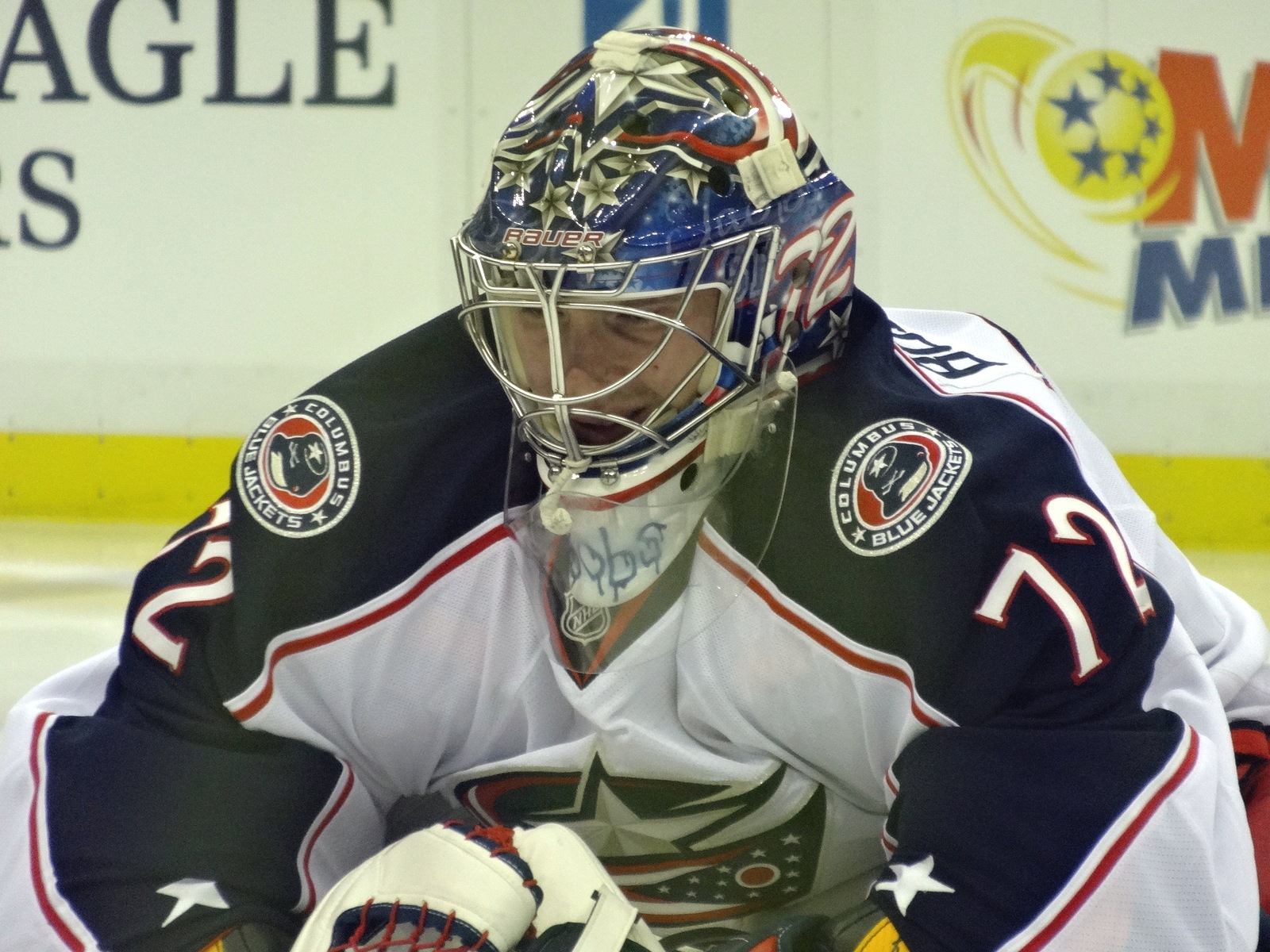 Columbus Blue Jackets goalie Sergei Bobrovsky warms up before a game against the Pittsburgh Penguins, November 1, 2013, at Consol Energy Center in Pittsburgh, PA.